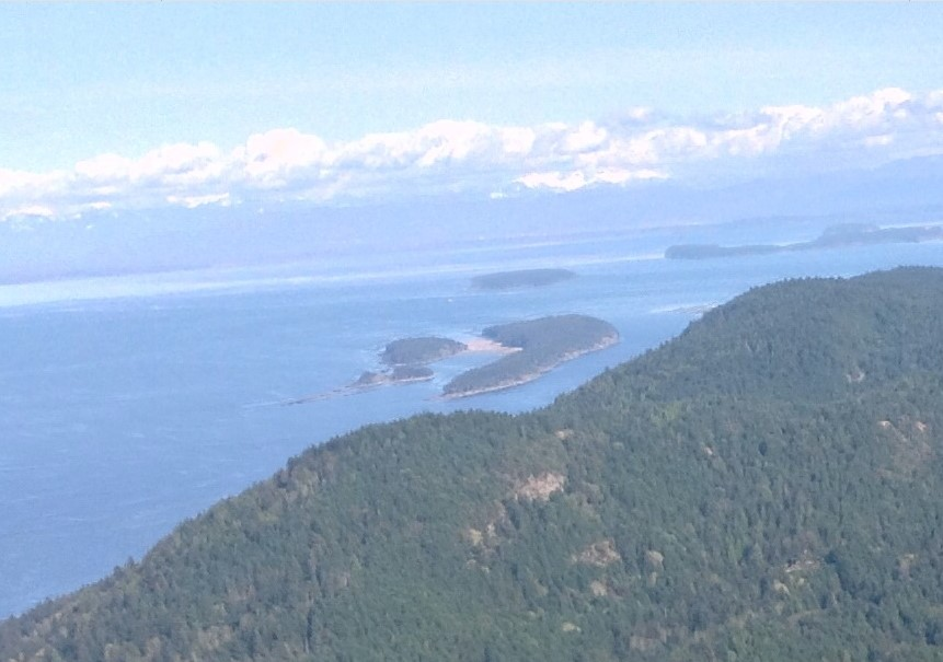 This is a zoomed-in copy of to illustrate Tumbo Island and Cabbage Island. Reef Harbour separates the two islands. They are part of the Gulf Islands National Park Reserve in British Columbia, Canada. Tumbo Island is an example of a tombolo. In the foreground is Saturna Island. The bodies of water are the Boundary Pass in the background and the Strait of Georgia on the left. The islands in the background are part of the San Juan Islands in the United States of America.